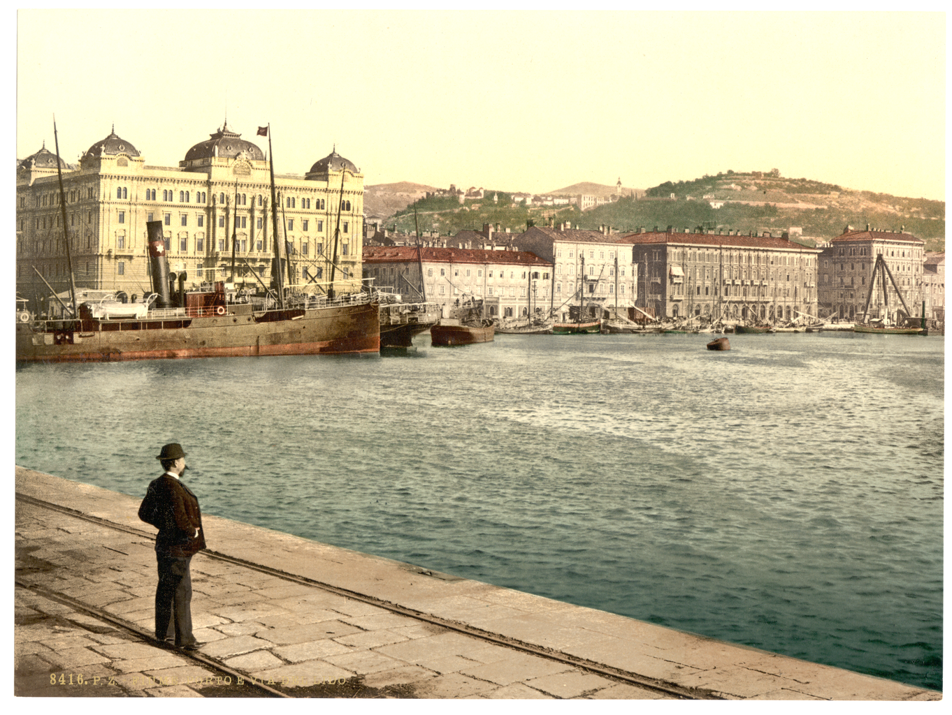 This photochrome print is from “Views of the Austro-Hungarian Empire,” a selection of photographs of late 19th-century tourist sites in Eastern and Central Europe (formerly known as the Austro-Hungarian Empire) that was part of the catalog of the Detroit Publishing Company. It depicts the harbor in Fiume, as the present-day city of Rijeka, Croatia, was known at the time. The city, which dates to Roman times, was part of Austria-Hungary before World War I and was populated by both Croats and ethnic Italians. It became an object of contention in the postwar peace settlement and in 1924 was ceded under pressure to Italy by the new state of Yugoslavia. It was returned to Yugoslavia after World War II. Croatia left the Yugoslav federation and became an independent state in 1991. Cities and towns; Harbors